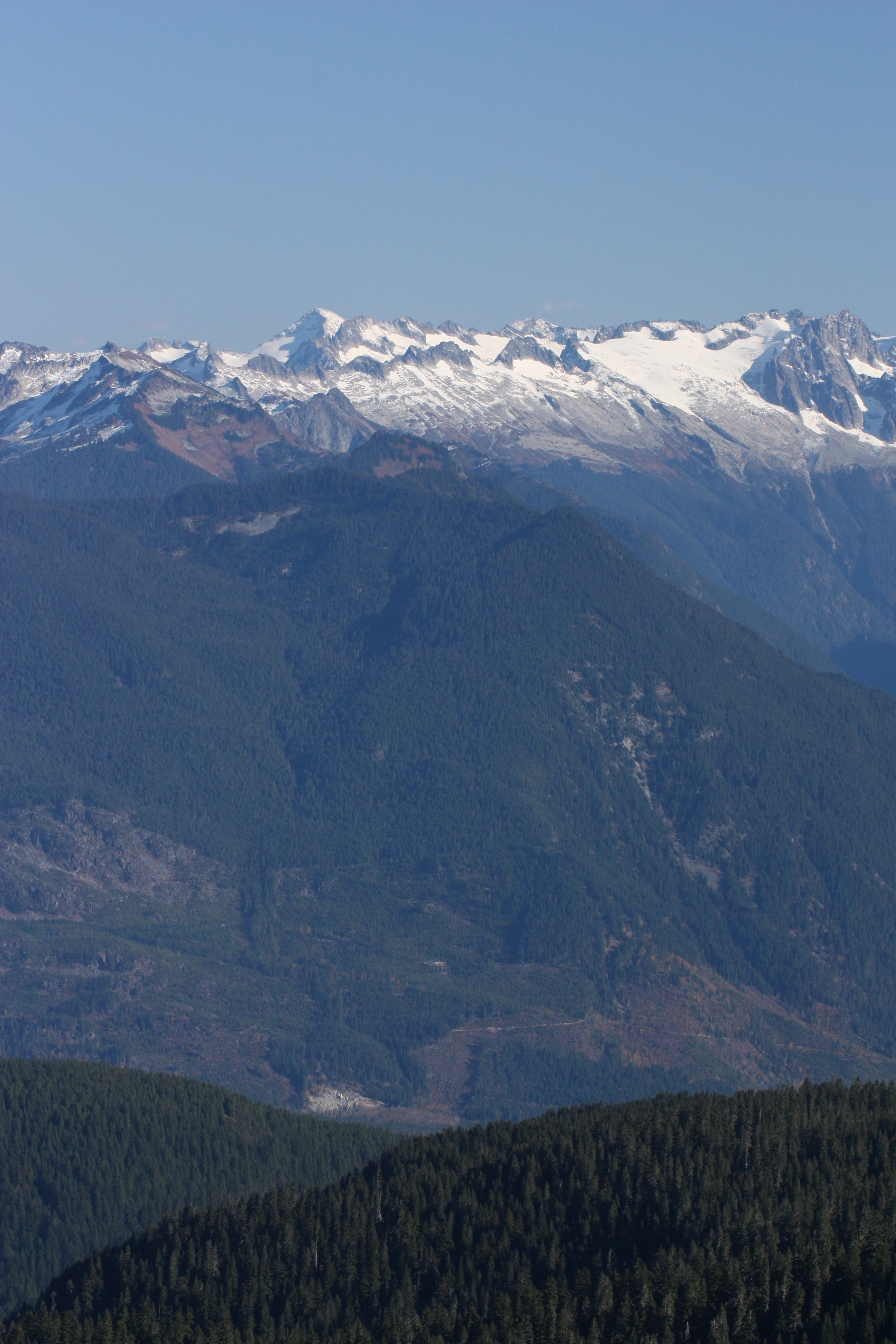 Primus Peak (left skyline with large shadowed northwest face); Austera Peak (indistinct ridge on skyline); Klawatti Peak (center skyline); Dorado Needle (far right skyline); Little Devil Peak (left middle distance); Lookout Mountain (left center middle distance) Viewpoint location: Sauk Mountain Trail #613, Mount Baker-Snoqualmie National Forest Viewpoint elevation: 1683 meter (5521 ft) View direction: 82° Location source: Garmin GPSmap 60CSx Location Datum: WGS84